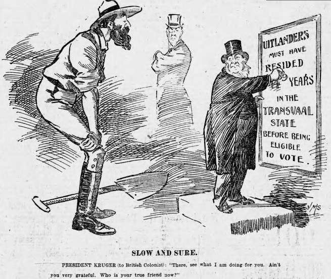 Political Cartoon by JM Staniforth. Paul Kruger, President of Transvaal, attempts to gain favour by reducing the voting time for the 'Uitlanders'. Joseph Chamberlain of the United Kingdom looks on.